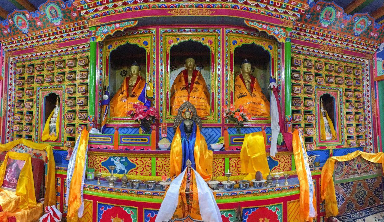 Buddha Statues of Phugmoche Monastery. Phugmoche, Solududhkunda, Solukhumbu, Eastern Nepal.